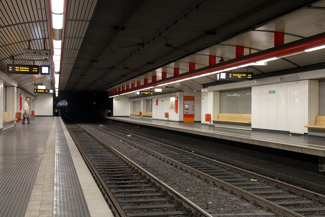 Light rail station Wurzerstraße in Bonn-Bad Godesberg